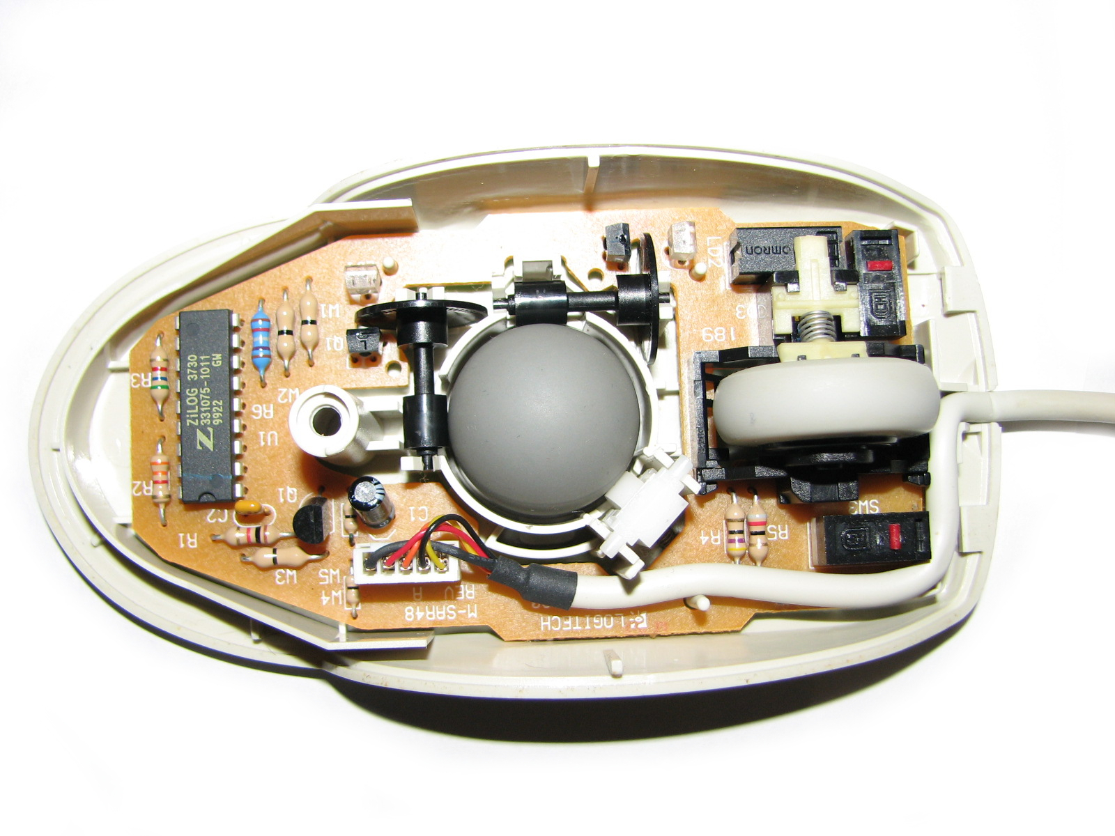 This is Logitech M-S48 ball mouse with the cover removed to show the inter workings. Photo taken by Taken by Gregory Badon.